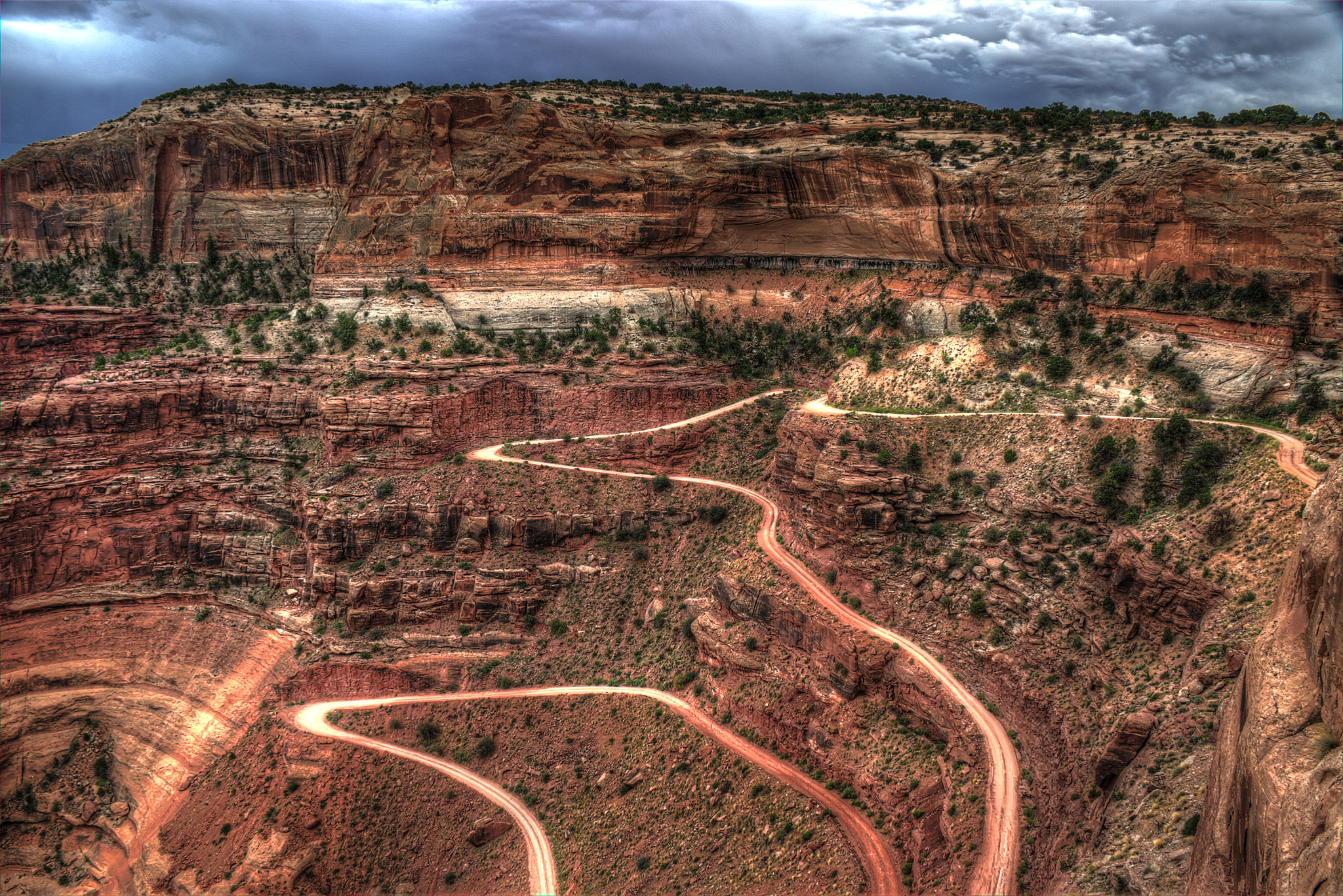 Shafer Trail Road